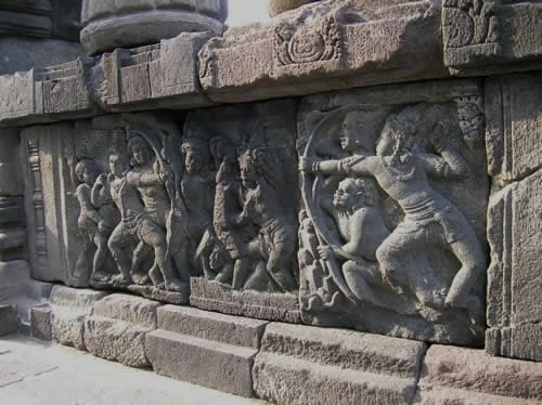 Relief at Prambanan temple compound.prambanan